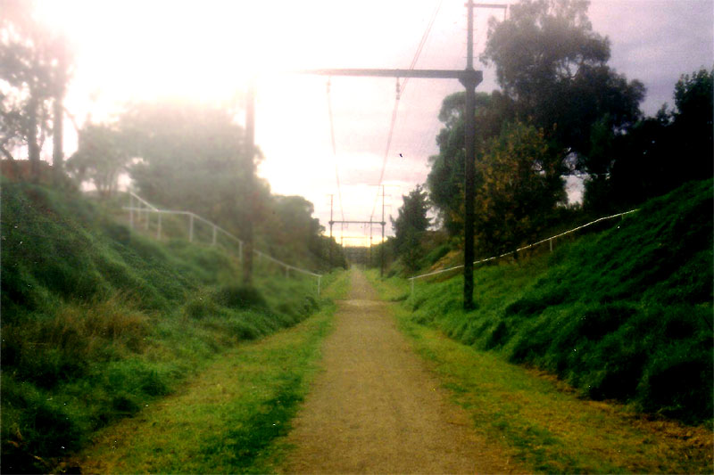 Looking north towards Alamein railway station along the former Outer Circle Railway formation between Alamein station and the former Waverley Road station